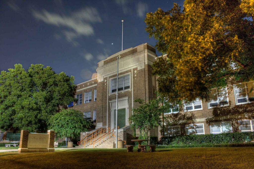 My latest HDR shot in Denton, TX. This is probably the most historic school in Denton. The campus actually started in the early 1900's as a college. It was John B. Denton College, which eventually became Abilene Christian University. After the college relocated to Abilene, the campus became the site of Denton Senior High School. Years later it became Calhoun Junior High, serving 7th, 8th, and 9th grade students. It eventually became Calhoun Middle School, as it remains today, catering to 6th, 7th, and 8th grade students. If you're interested you can read more history here